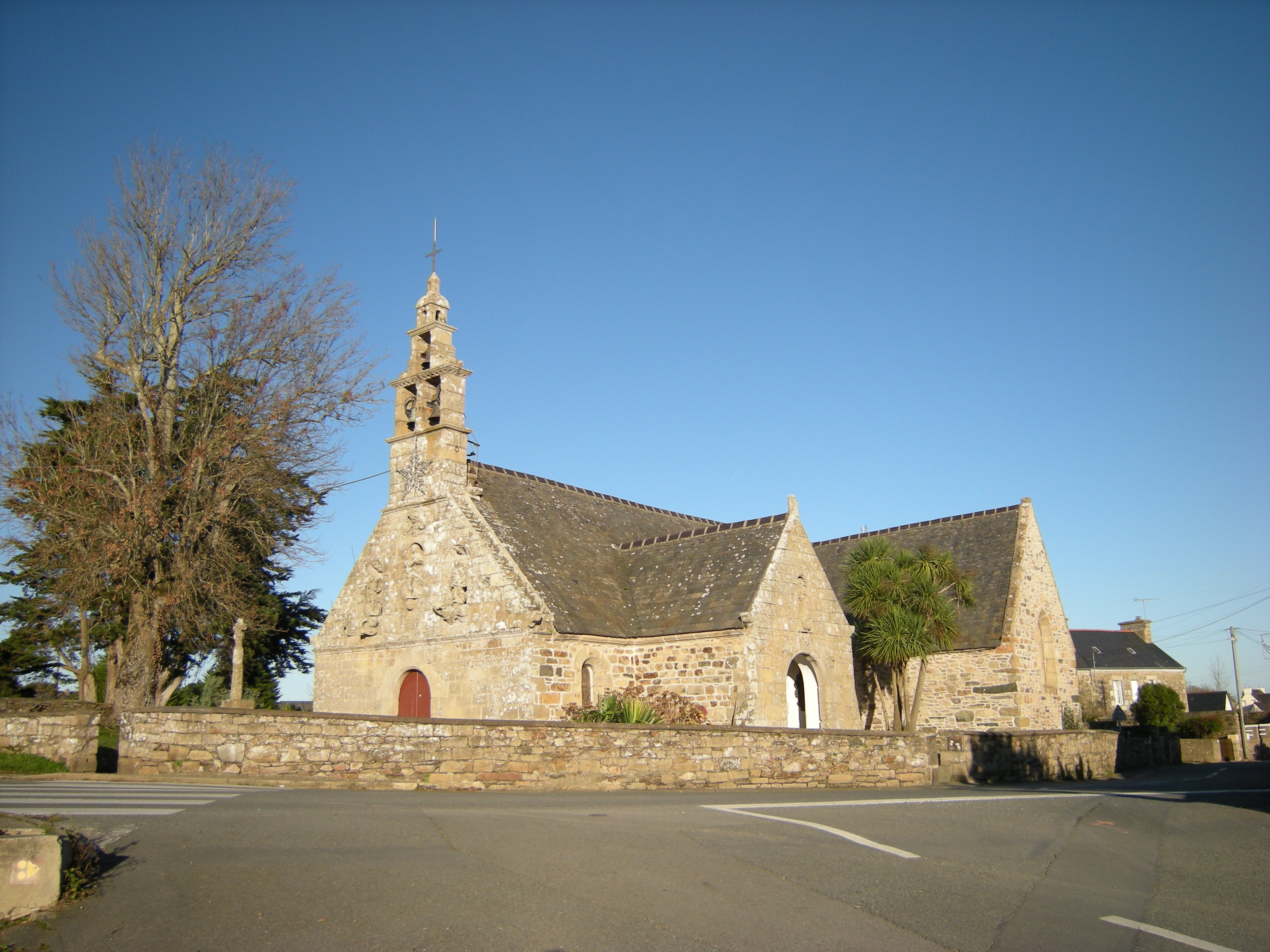 Chapel of Perros-Hamon, Ploubazlanec, Côtes-d'Armor, France